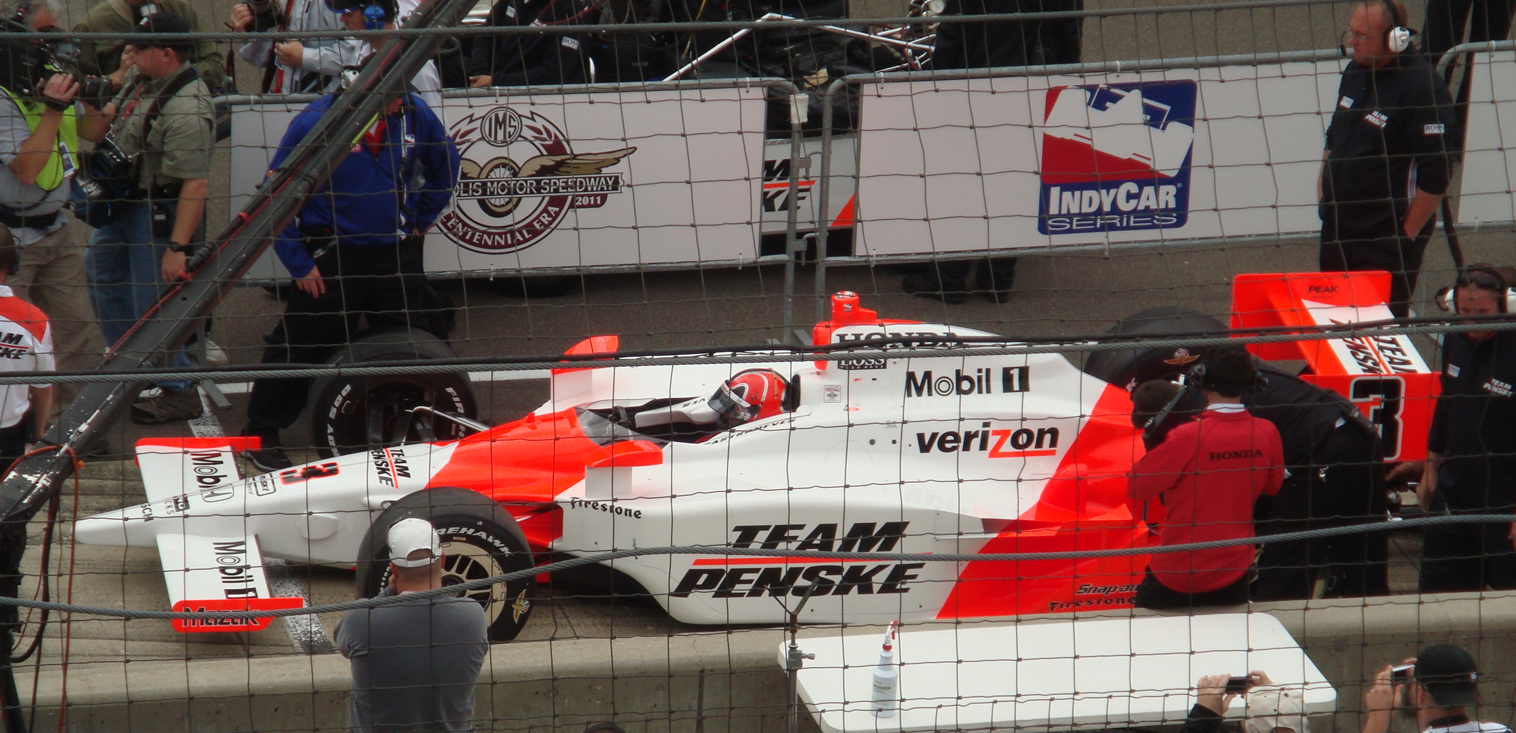 Hélio Castroneves sits in his car in the qualifying line just prior to his pole-winning qualification run for the 2009 Indianapolis 500. May 9, 2009, Indianapolis Motor Speedway.